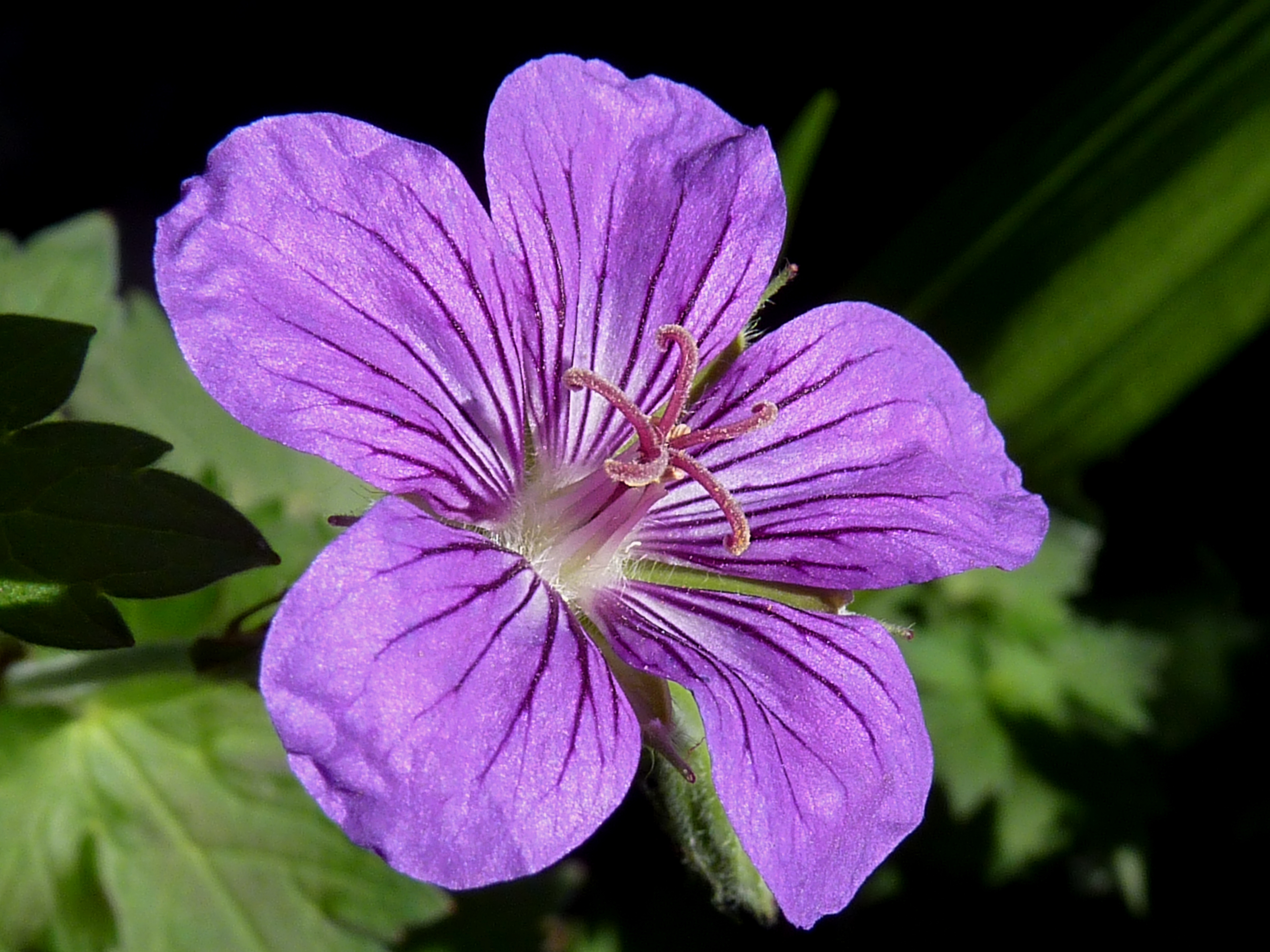 Geranium wlassovianum, picture taken in Belgium.